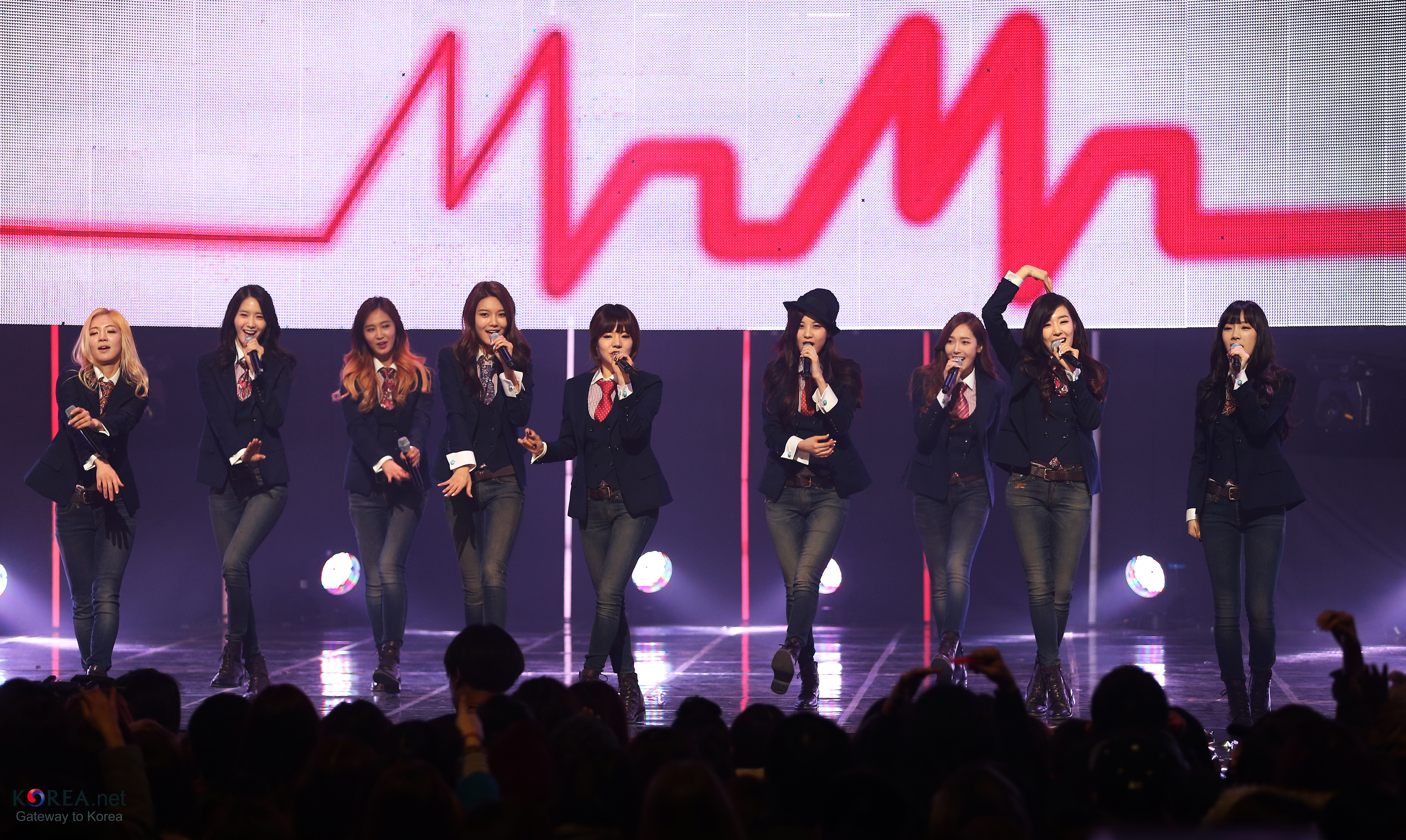 Mcountdown Girl’s Generation Comeback Performance CJ E&M Center, Sangam-dong, Mapo-gu, Seoul 2014.03.06. Related Article - -English- Girls’ Generation hits the top with comeback album -Español - Girls’ Generation reaparece con nuevo disco, y se coloca en primer lugar -Deutsche- Girls’ Generation stürmen die Charts mit Comeback-Album -русский- Girls’ Generation попадают на вершину с «альбомом-возвращением» -français- Retour gagnant pour les filles de Girls’ Generation -中文- 少女时代首场回归舞台获一位 -日本語- やはり少女時代、久しぶりのランキング番組出演で早くも1位 - tiếng Việt- SNSD danh bất hư truyền, giành vị trí quán quân ngay lần đầu trở lại showbiz -Arabic- فريق جيرلز جينيريشن يتألق بألبوم العودة Ministry of Culture, Sports and Tourism Korean Culture and Information Service ( Jeon Han 엠카운트다운 생방송 소녀시대 복귀 무대 2014-03-06 CJ E&M 센터 관련 기사 코리아넷 “역시 소녀시대, 컴백 첫 무대에서 정상” 문화체육관광부 해외문화홍보원 코리아넷 전한